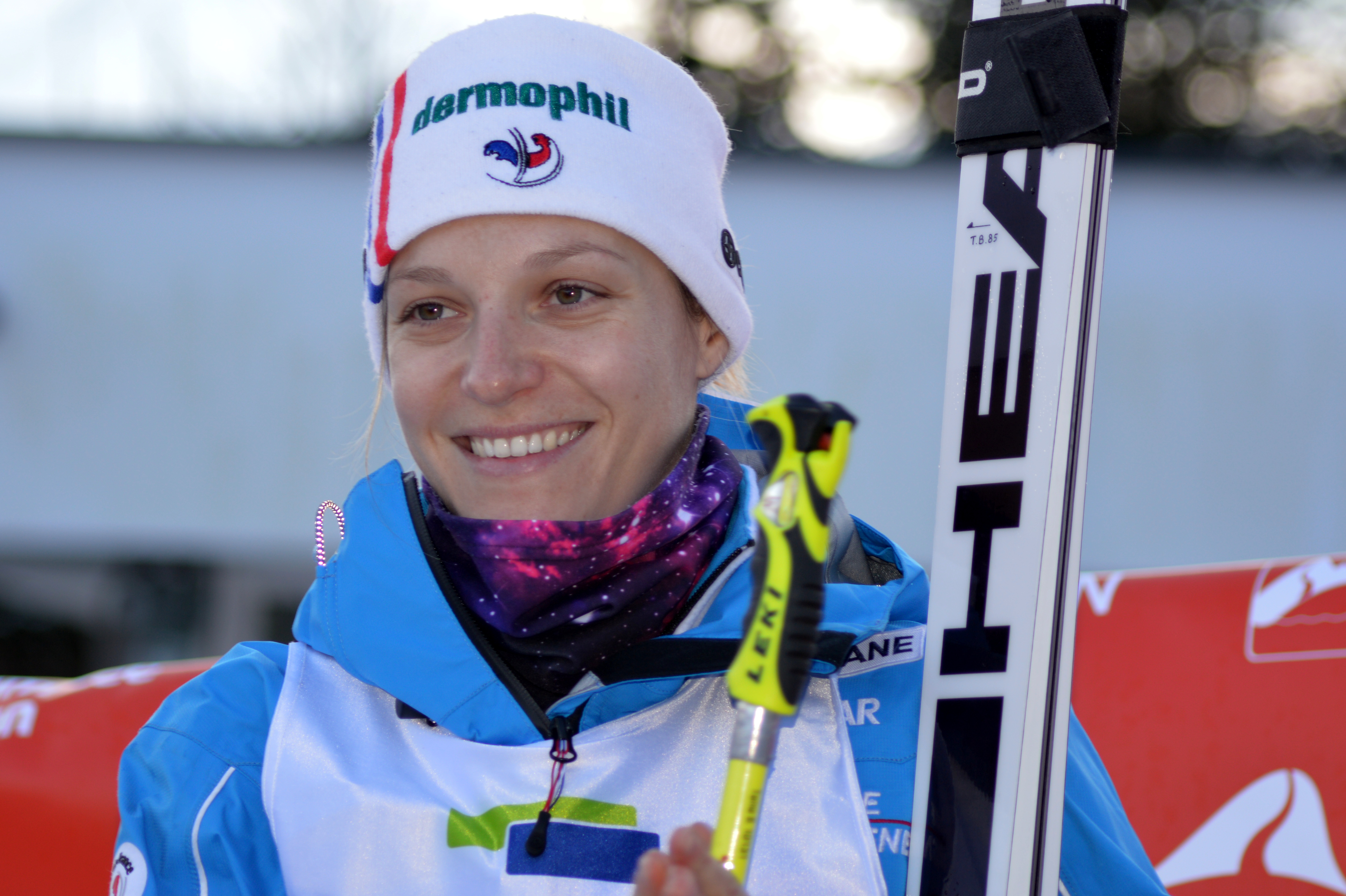 Taina Barioz, french ski-alpin-racer, born 1988 in Papeete, Tahiti, is a Slalom and a Giant Slalom specialist. The picture was taken after the European Cup Giant Slalom in Zell am See, Salzburg (state), Austria, on 22nd of January 2015. Taina Barioz reached the second place after the winner Wendy Holdener (Switzerland) and in front of Stephanie Brunner (Austria).